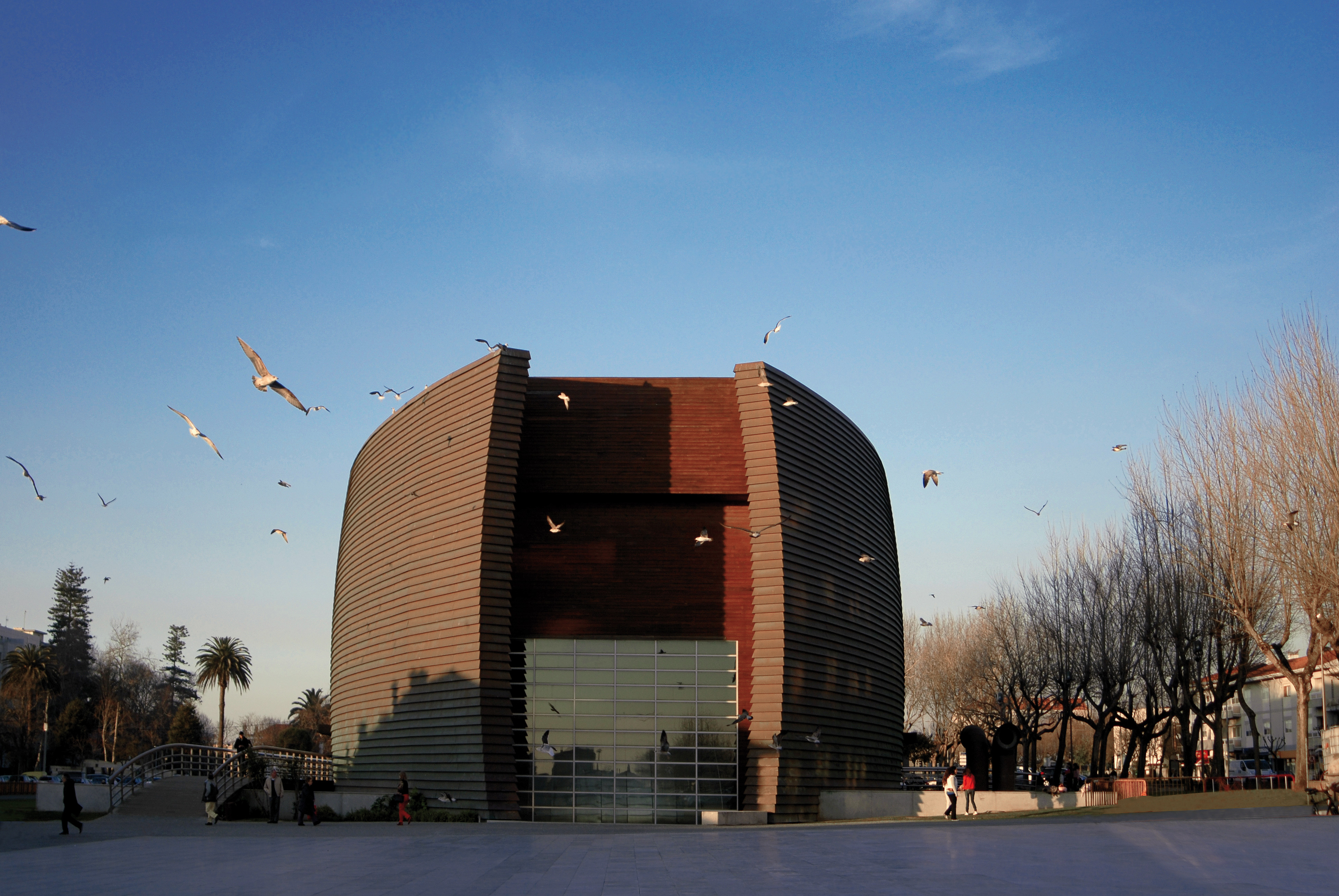 Longitude: - Altitude: 20m